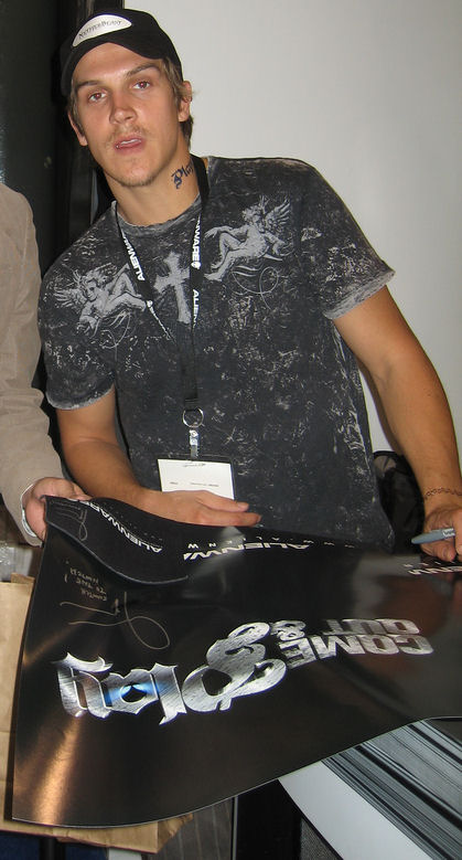 Jay was signing autographs (Jason Mewes from the Kevin Smth movies, better known as Jay from Jay and Silent Bob). I look like a tool bc he was making me laugh, he was in mid-sentence